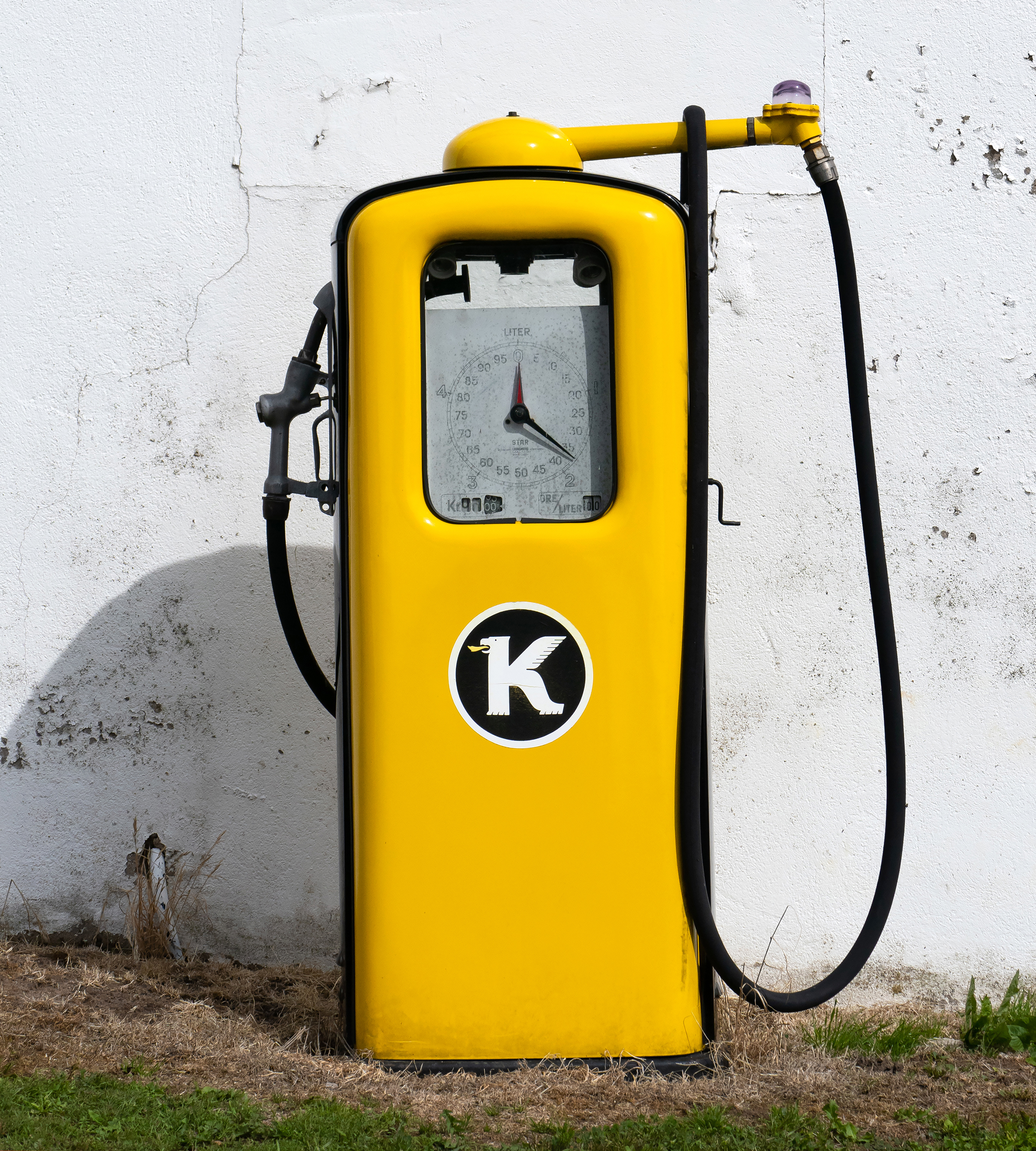 Old Koppartrans gas pump on a farm in Immestad, Lysekil Municipality, Sweden.